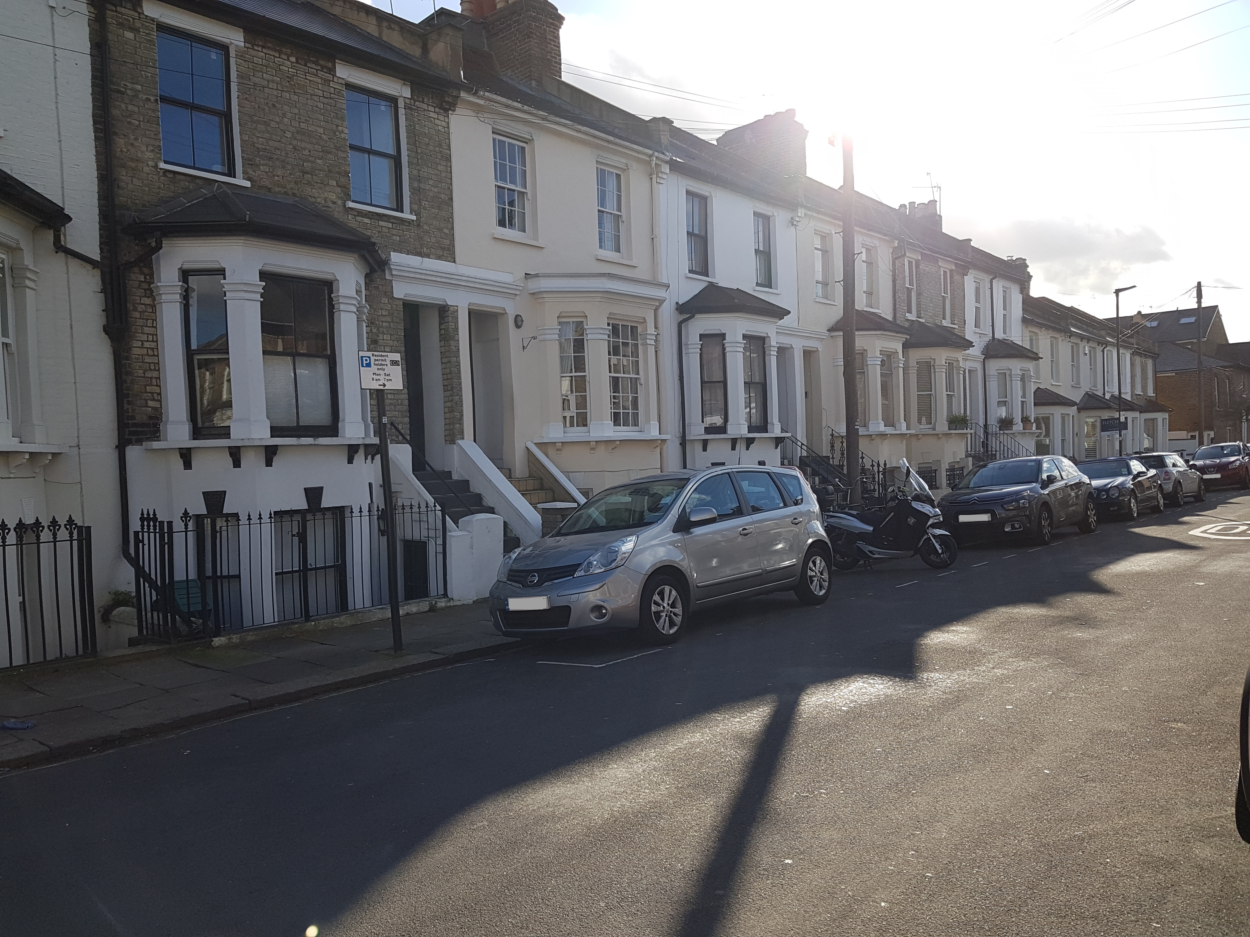 Clarence Villas